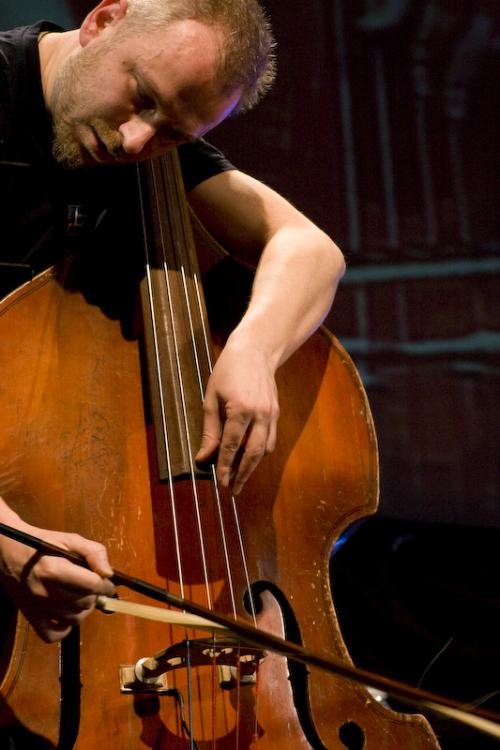 foto of Mark Tokar, play